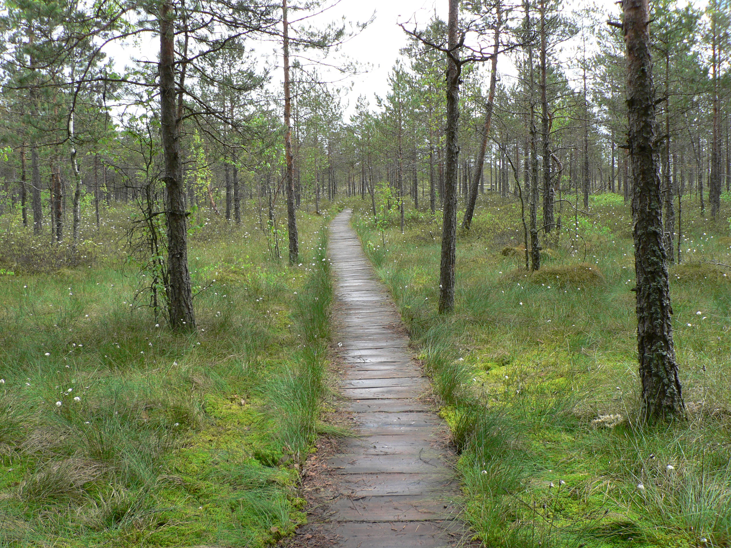 Cepkeliu swamps in Dzūkija National Park, near Marcinkonys, Lithuania.